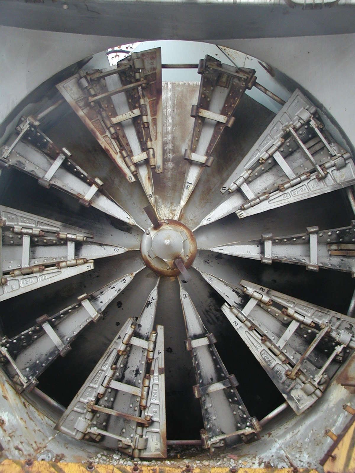 Rotary snow plough